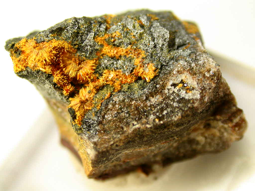 Karibibite Locality: Oumlil Mine (incl. Oumlil East Mine), Oumlil, Bou Azer District (Bou Azzer District), Tazenakht, Ouarzazate Province, Souss-Massa-Draâ Region, Morocco Original description: A 2.2 by 1.8 cms mass with yellowish microcrystals. JSS specimen and photo.